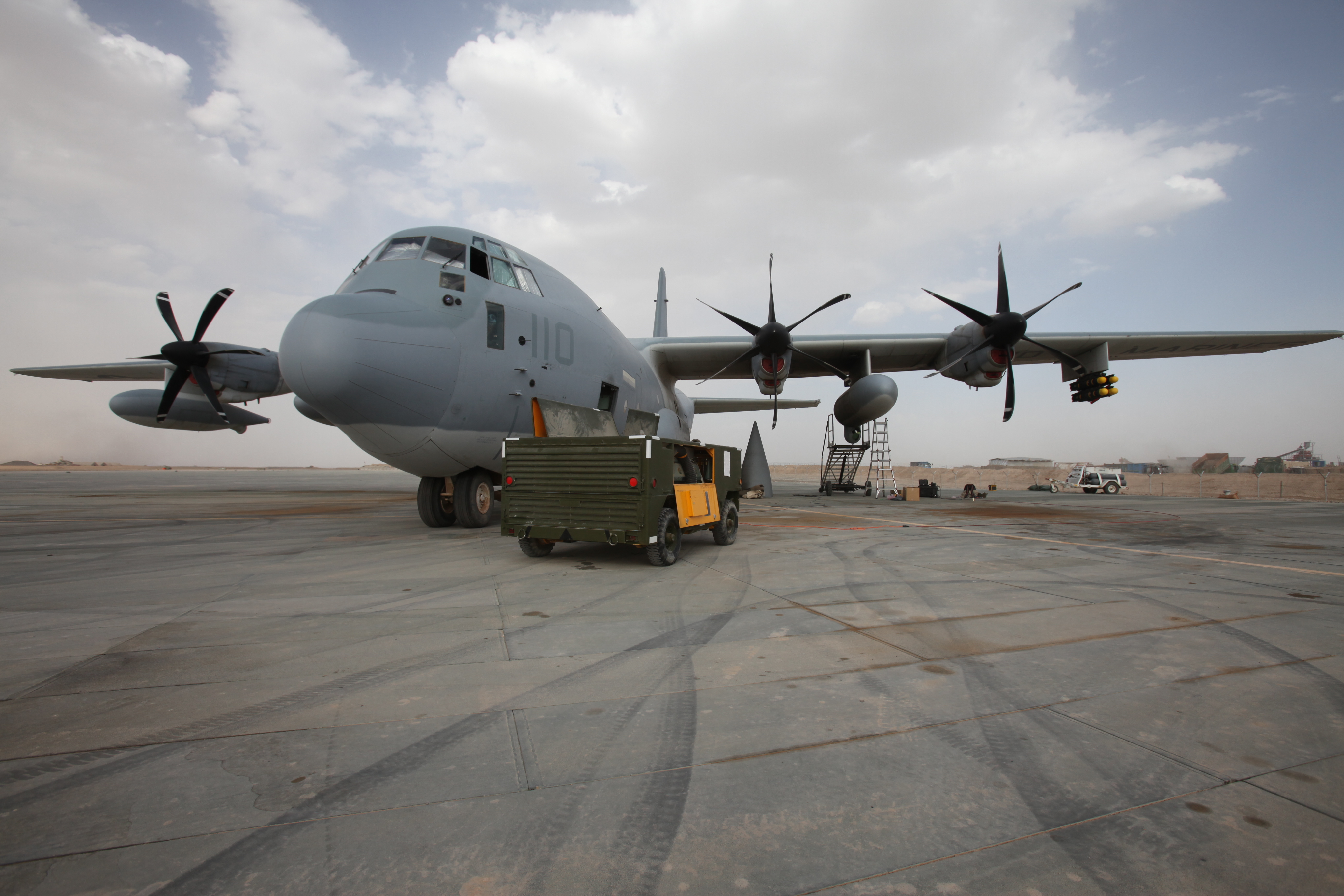 A U.S. Marine Corps "Harvest Hawk" equipped Lockheed KC-130J Hercules (BuNo 167110) rests on the runway at Camp Dwyer, Afghanistan, on 24 March 2011. The "Harvest Hawk" system includes a AN/AAQ-30 Targeting Sight System (TSS) which is mounted under the left wing's external fuel tank and a complement of four AGM-114 Hellfire and 10 Griffin missiles. The "Harvest Hawk" variant of the KC-130J supported the 2nd Marine Aircraft Wing (Forward) in providing closer air support and surveillance for troops in southwestern Afghanistan.